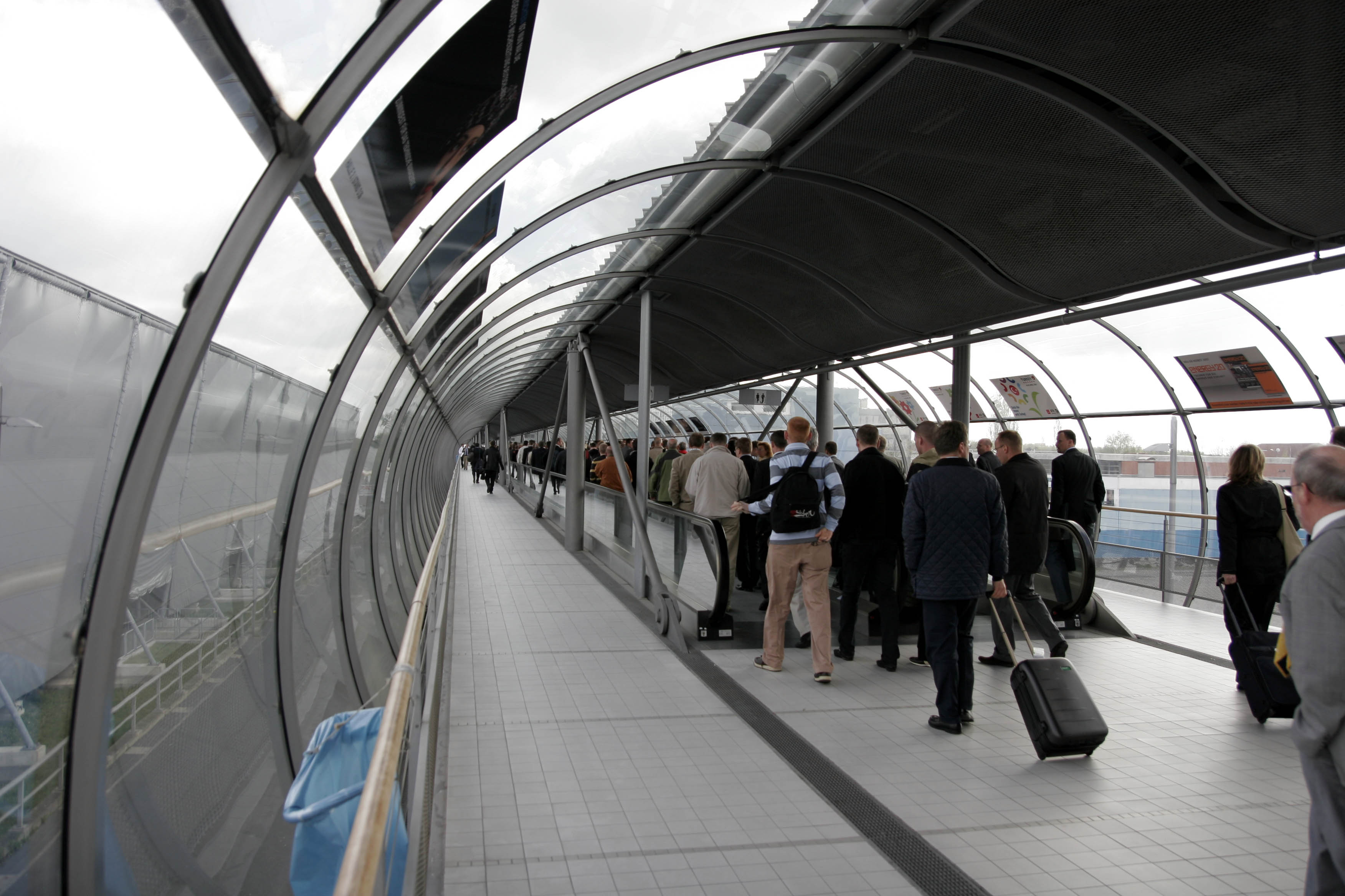 Skyway at the Hannover Fair (Germany) on April 18th, 2007